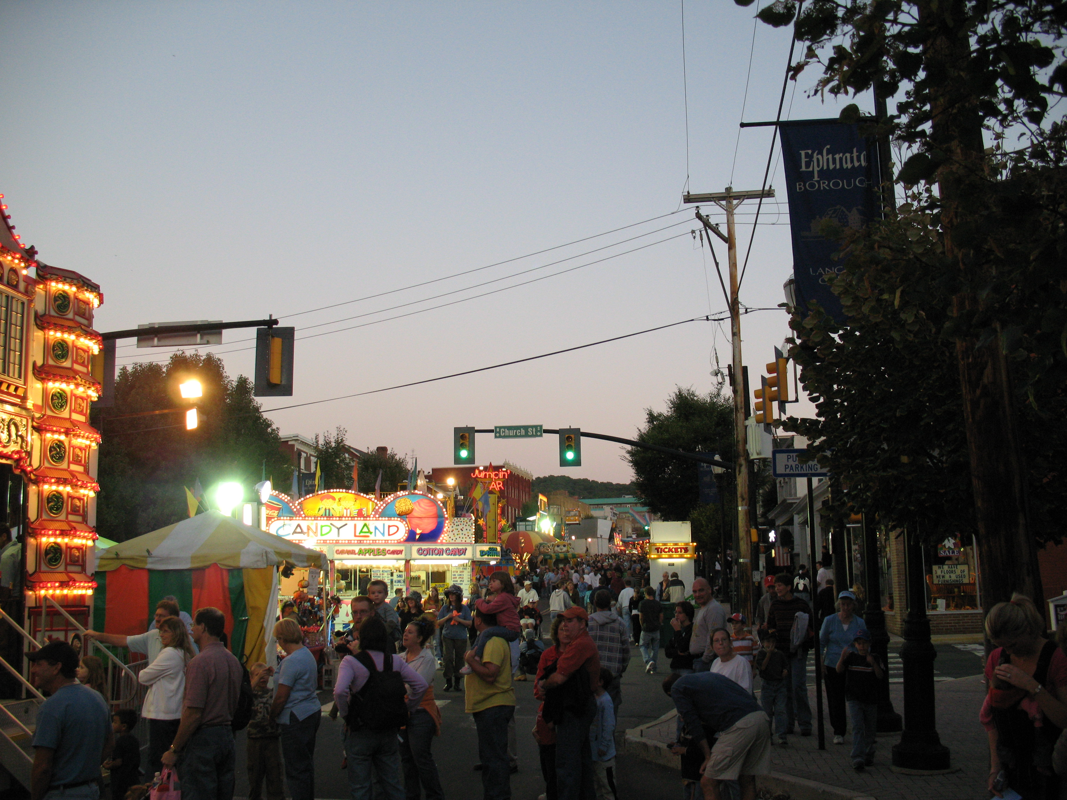 The Ephrata Fair, looking up Main Street from Church Street, Ephrata, Pennsylvania